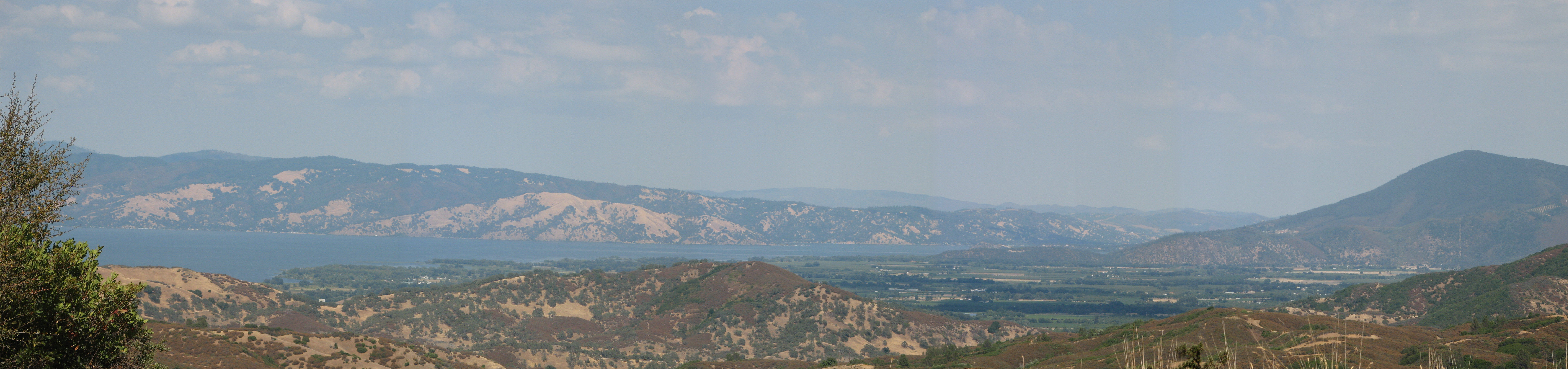 Clear Lake, from Route 175 in Lake County, northern California. The Clear Lake region was the former homeland of the Miwok, Pomo, and Wappo indigenous peoples, with their sacred and archeological sites. Photo by Kit Conn.